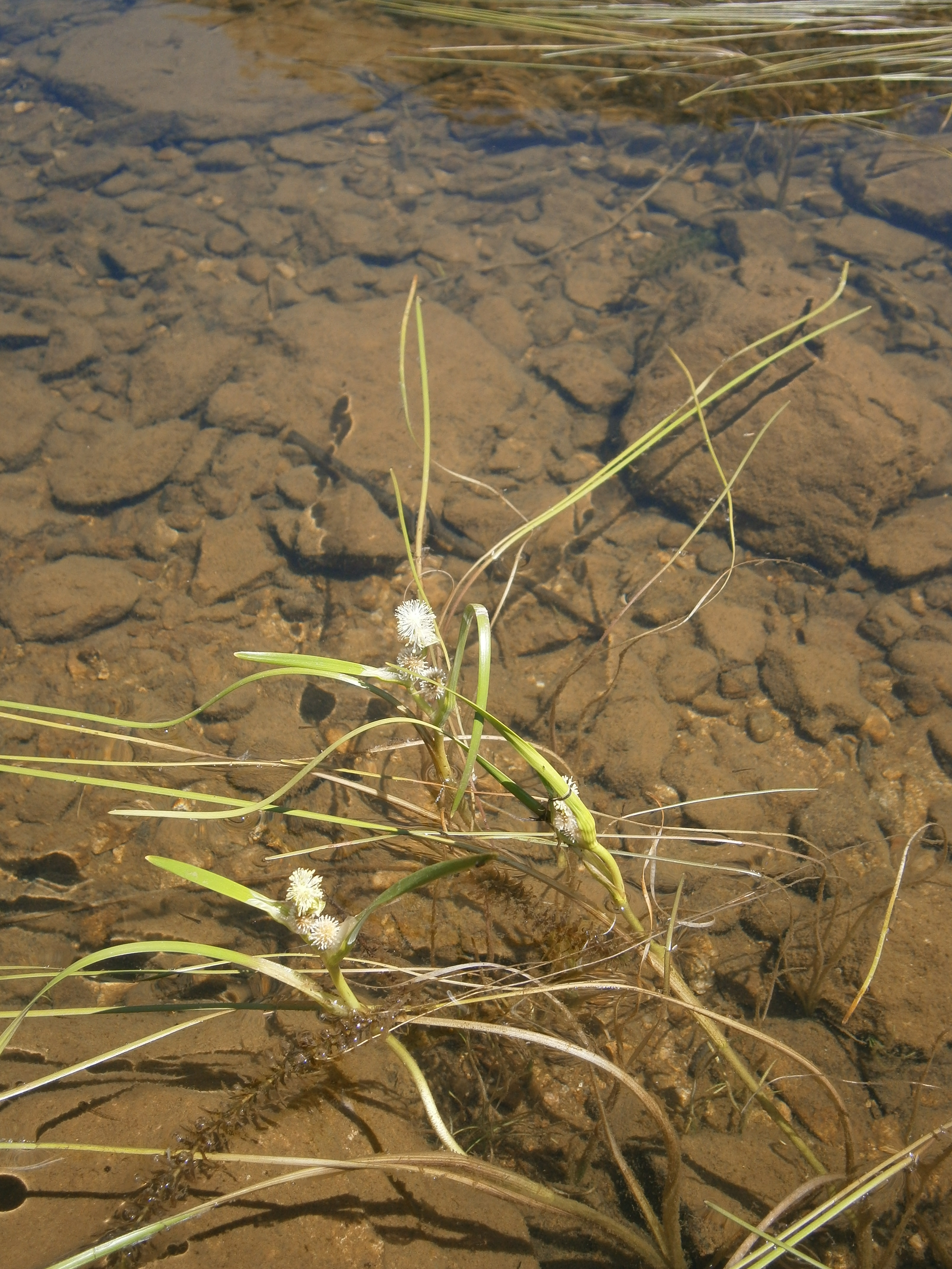 Sparganium angustifolium